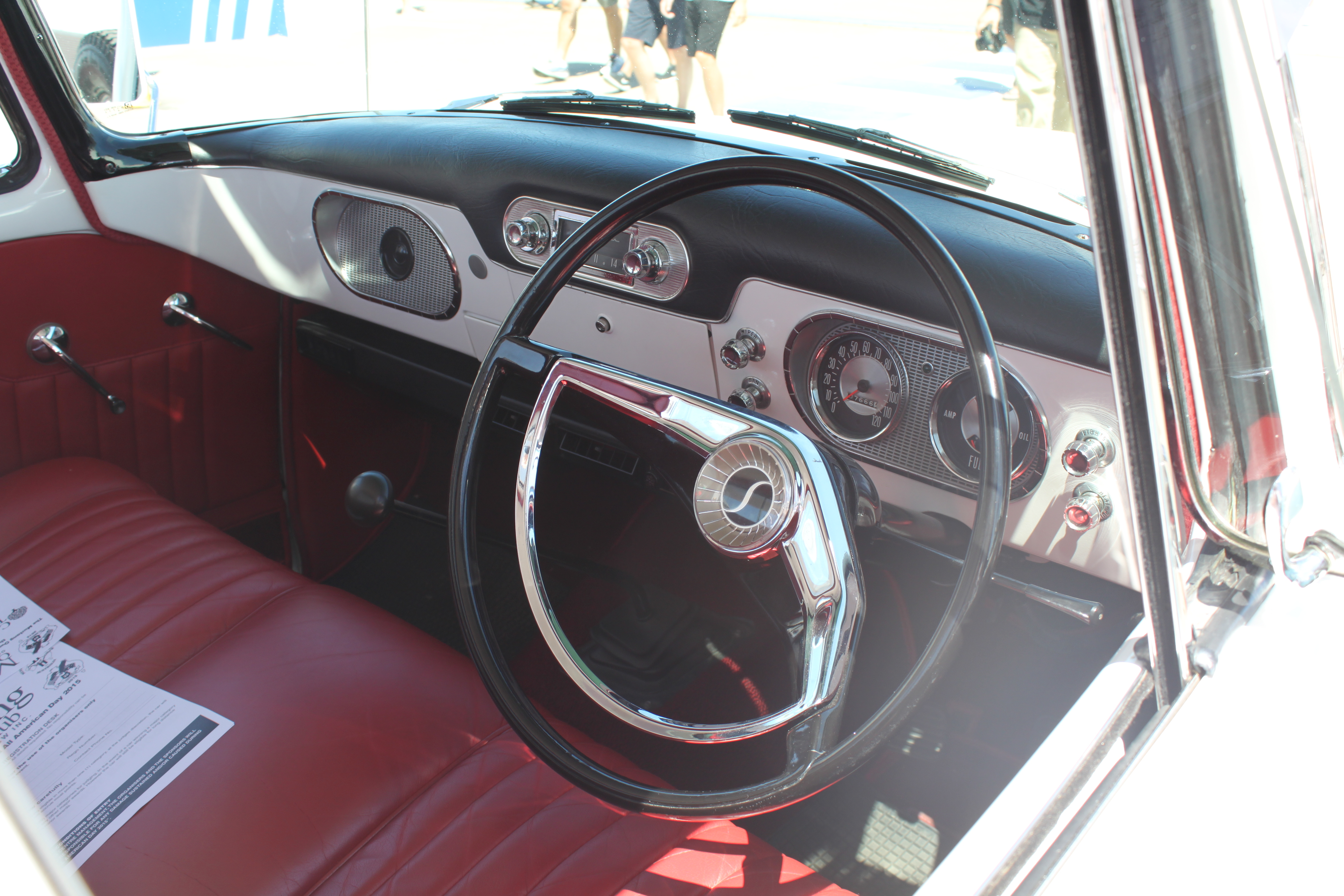 American Car Show, Castle Hill NSW 2015